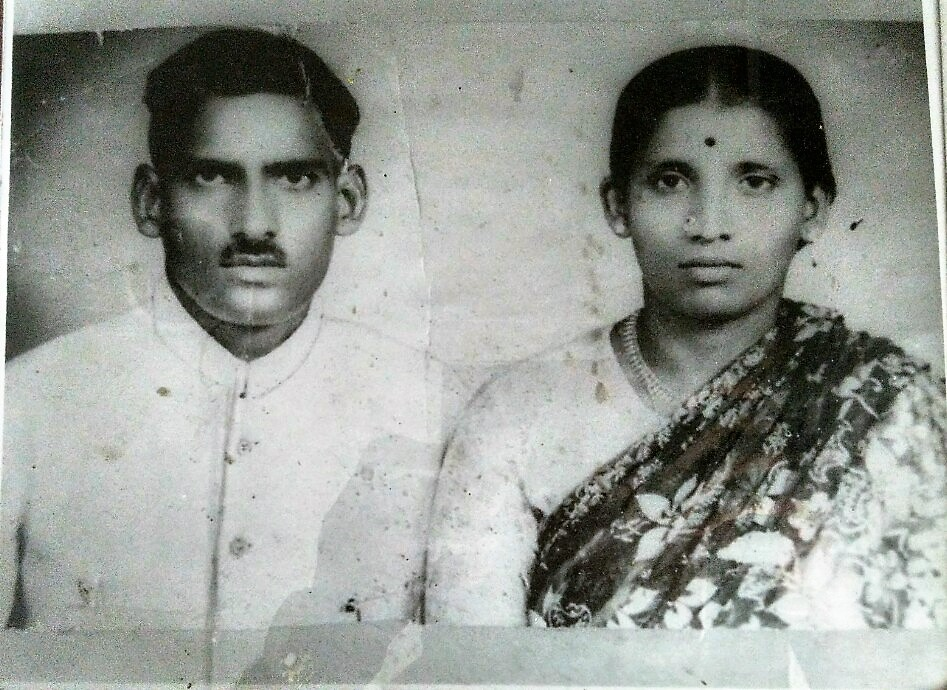 Sri Kondru Subba with his wife Smt.Kondru Bikshamma